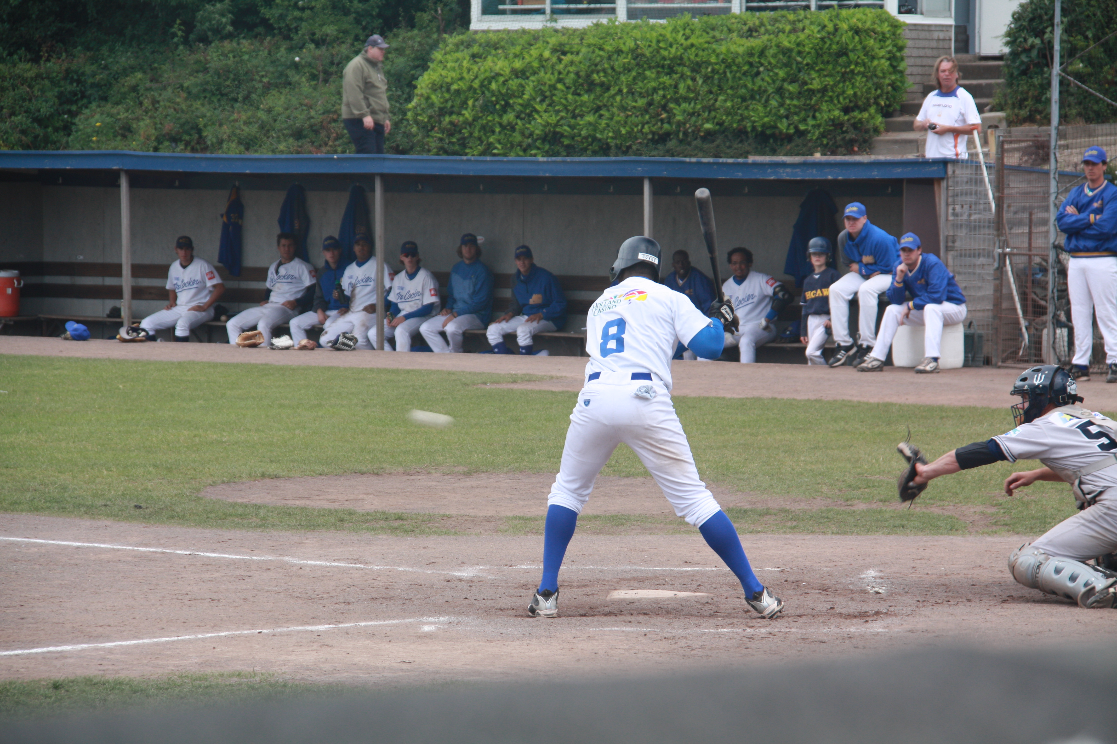 Quensley Bazoer hitting for HCAW